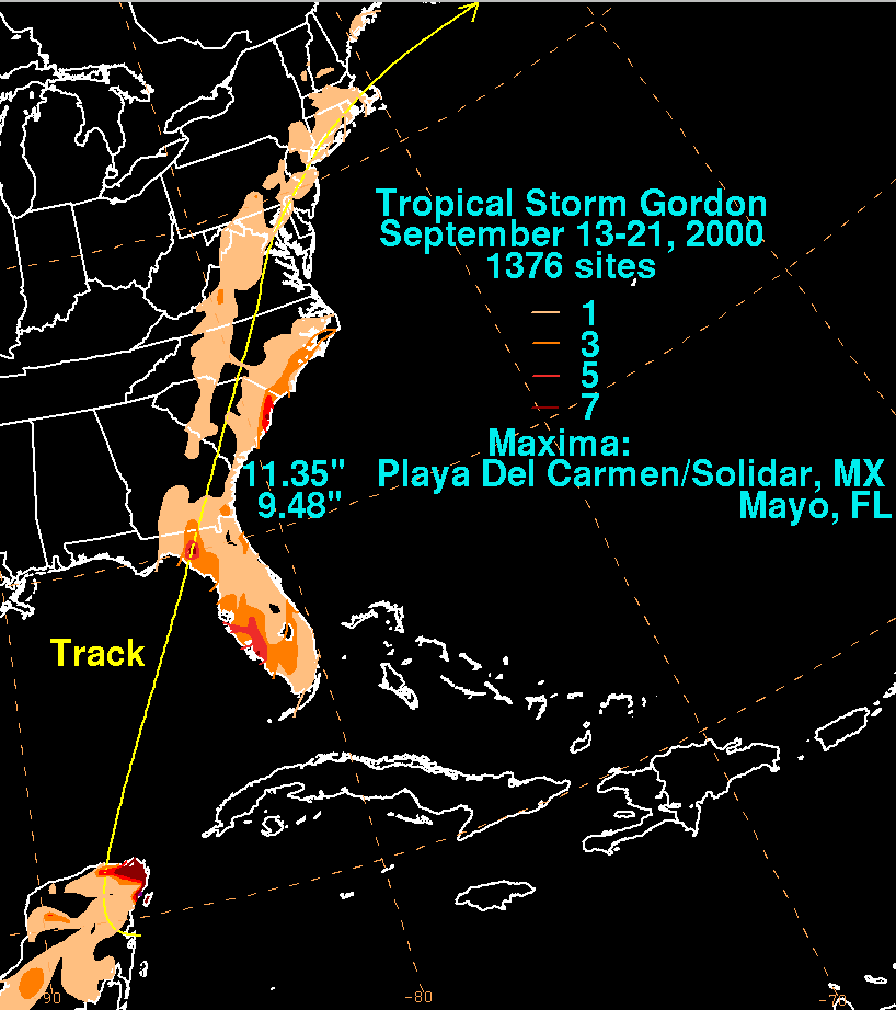 Rainfall produced by Hurricane Gordon during September 2000.